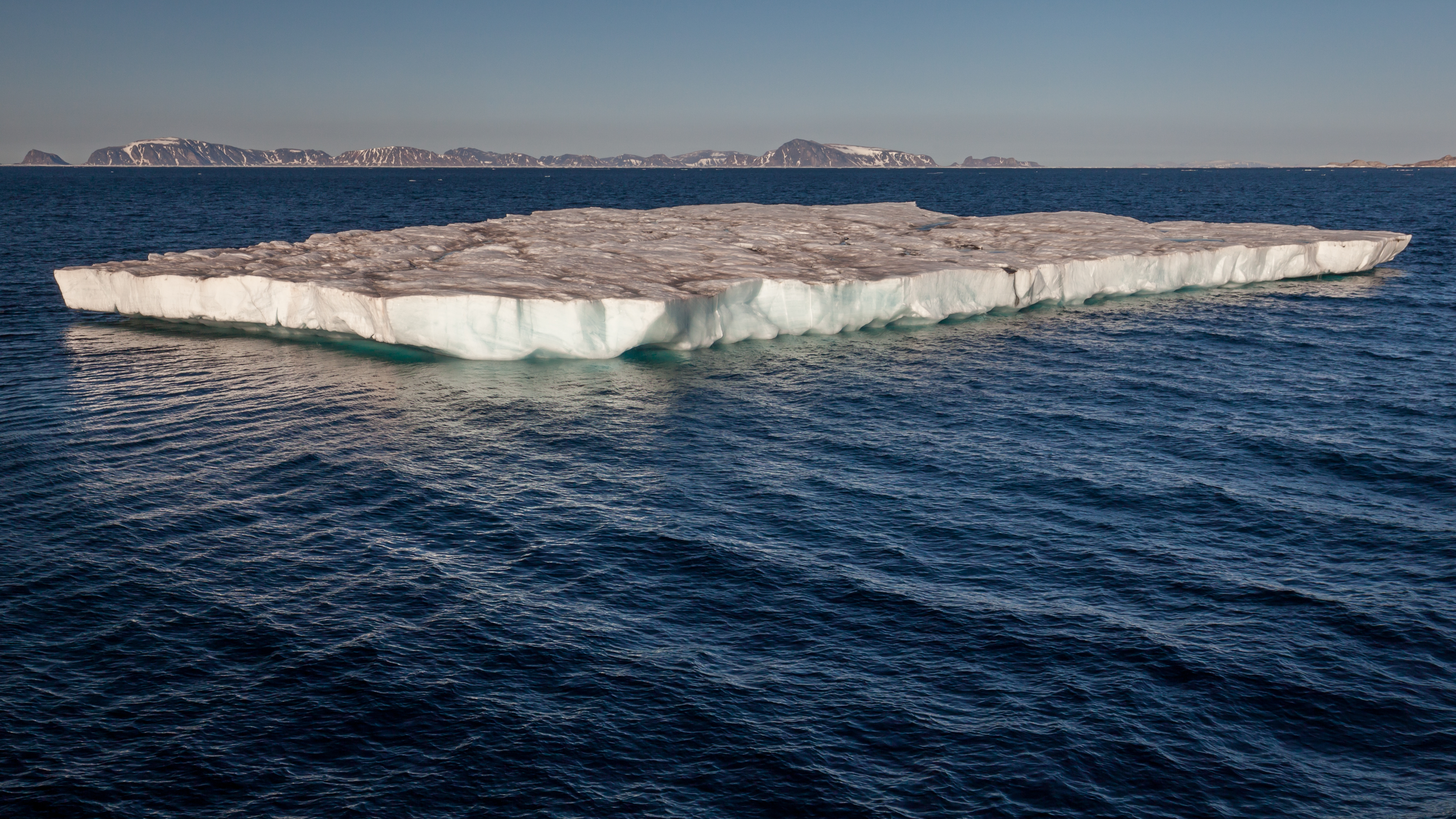 Table icebergs are very rare in the Arctic as they calve from shelf ice, which is rarely found in the north. They are normally a typical form of icebergs in the Antarctic. This one has an estimated height of 10-12m and a size of half a soccer field.